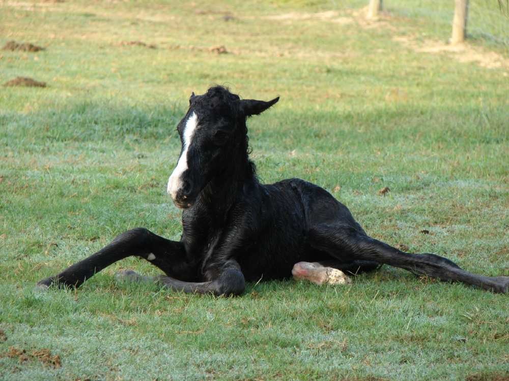 Born outside. She was really suprise